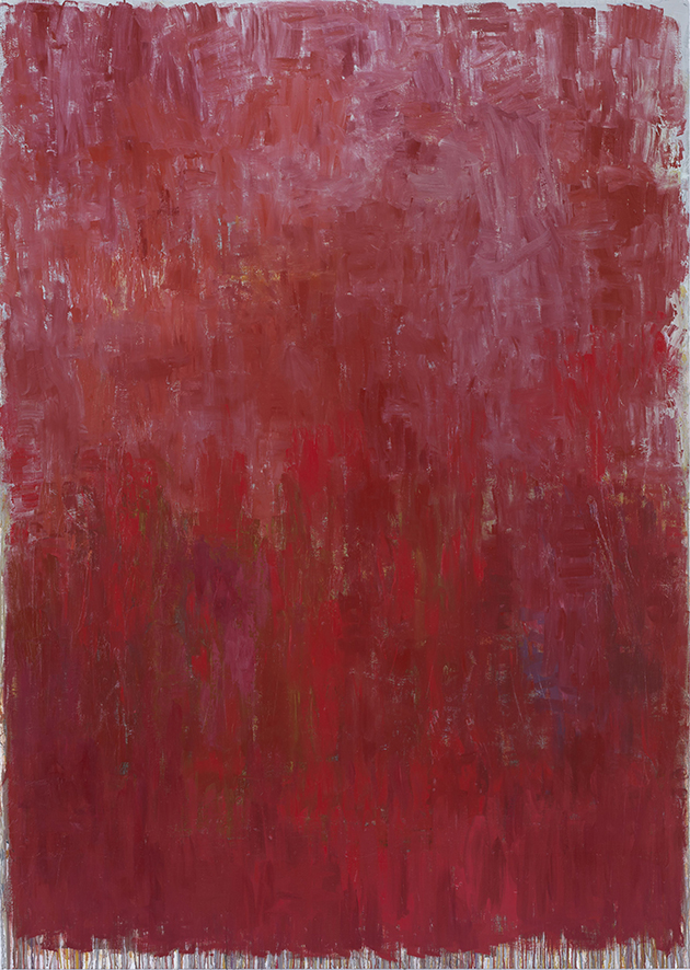 Christopher Le Brun, Walton, 2013, oil on canvas, 240 x 170 cm